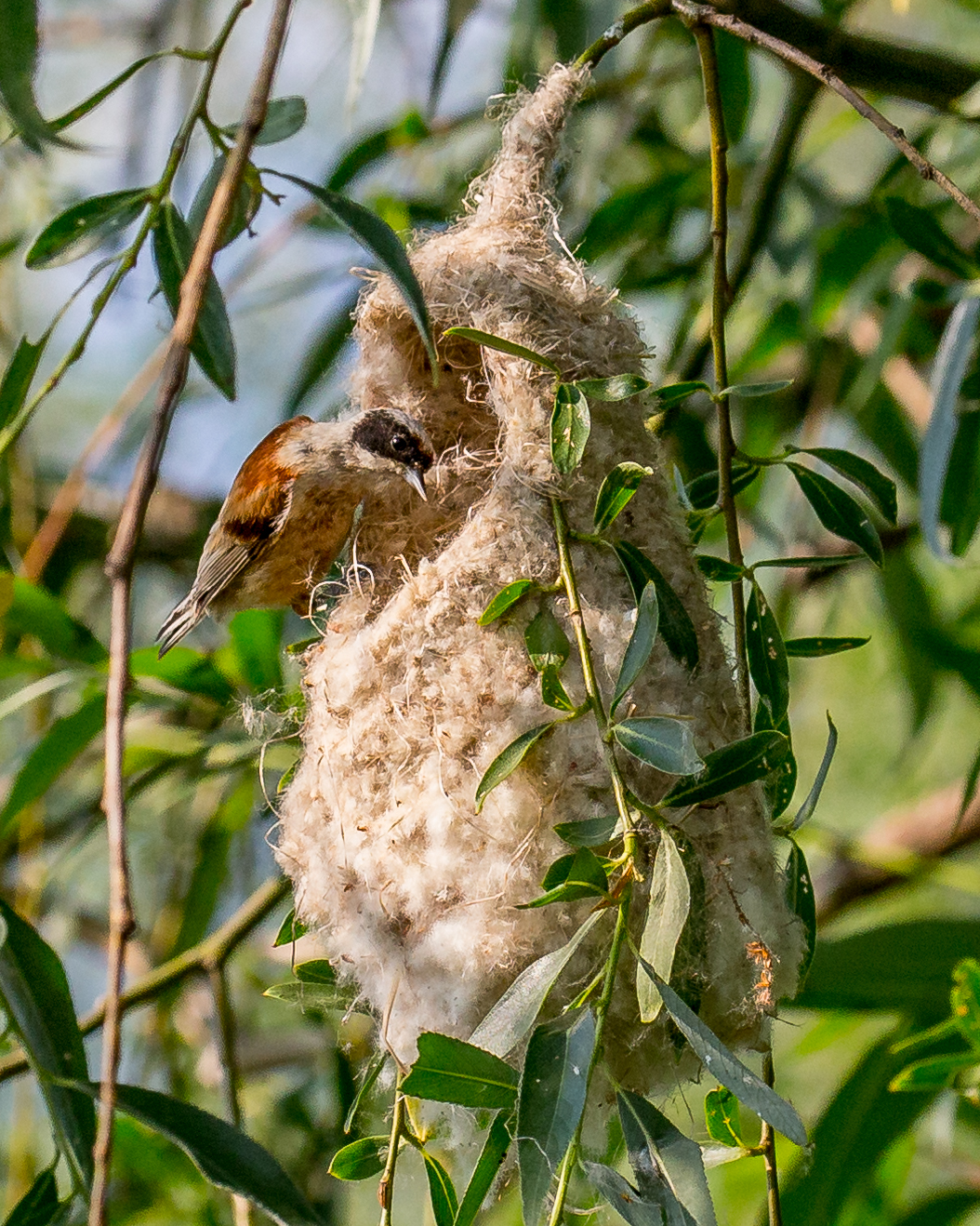 A penduline tit builds his nest! Taken in Hungary.